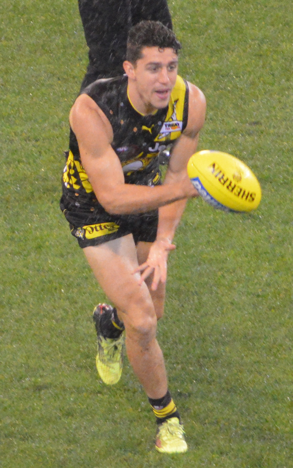 Jason Castagna with Richmond in the round 10 Dreamtime at the 'G AFL match against Essendon at the MCG on 25 May 2019.